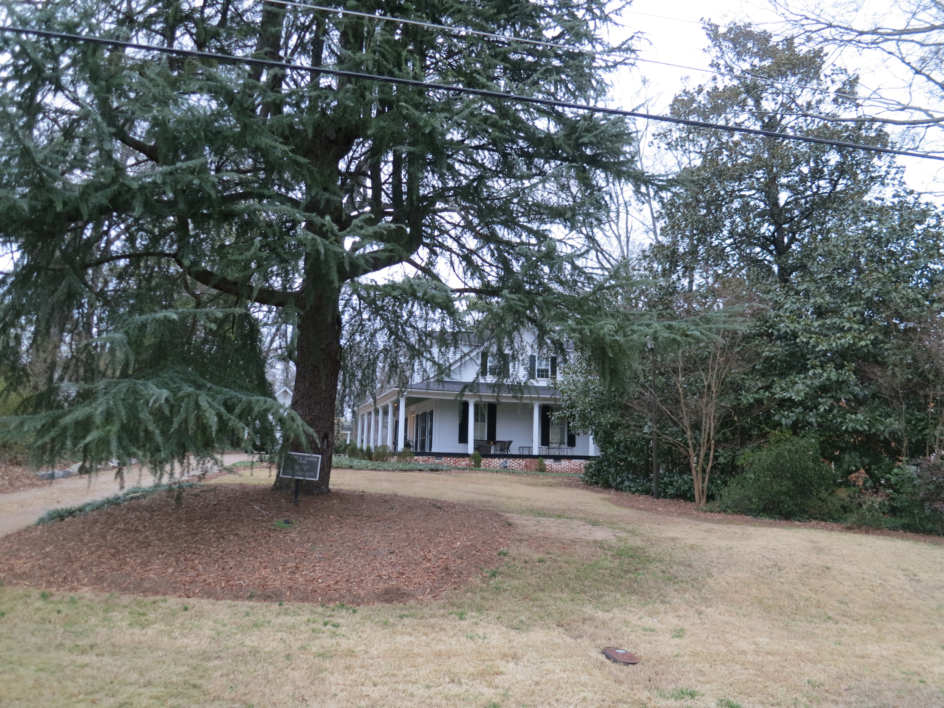 Alston House across from East Lake Golf Course